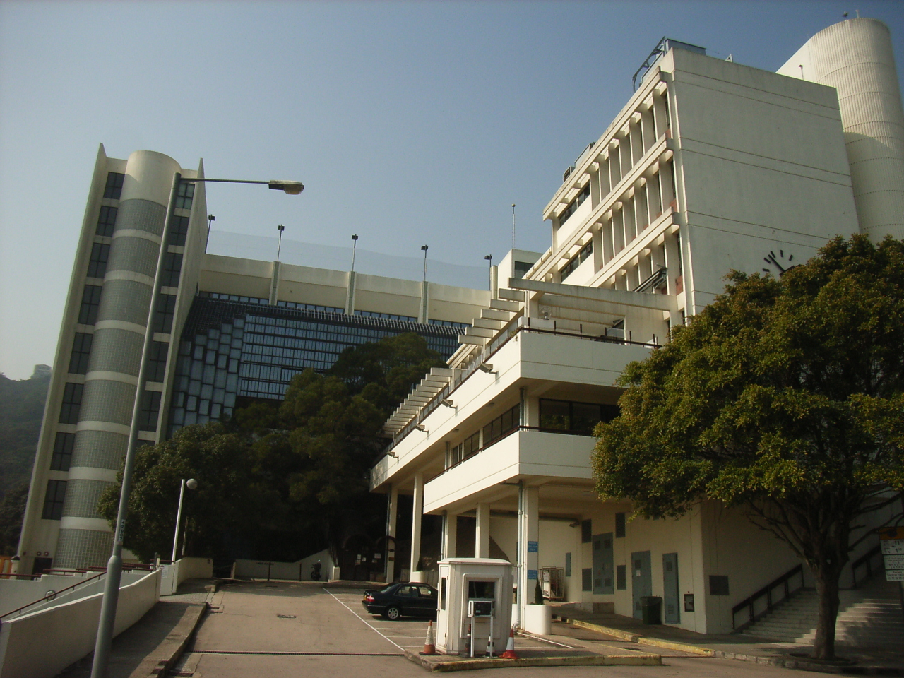 German Swiss International School (Middle Block), 11 Guildford Road, Peak Road, the Victoria Peak, Hong Kong.